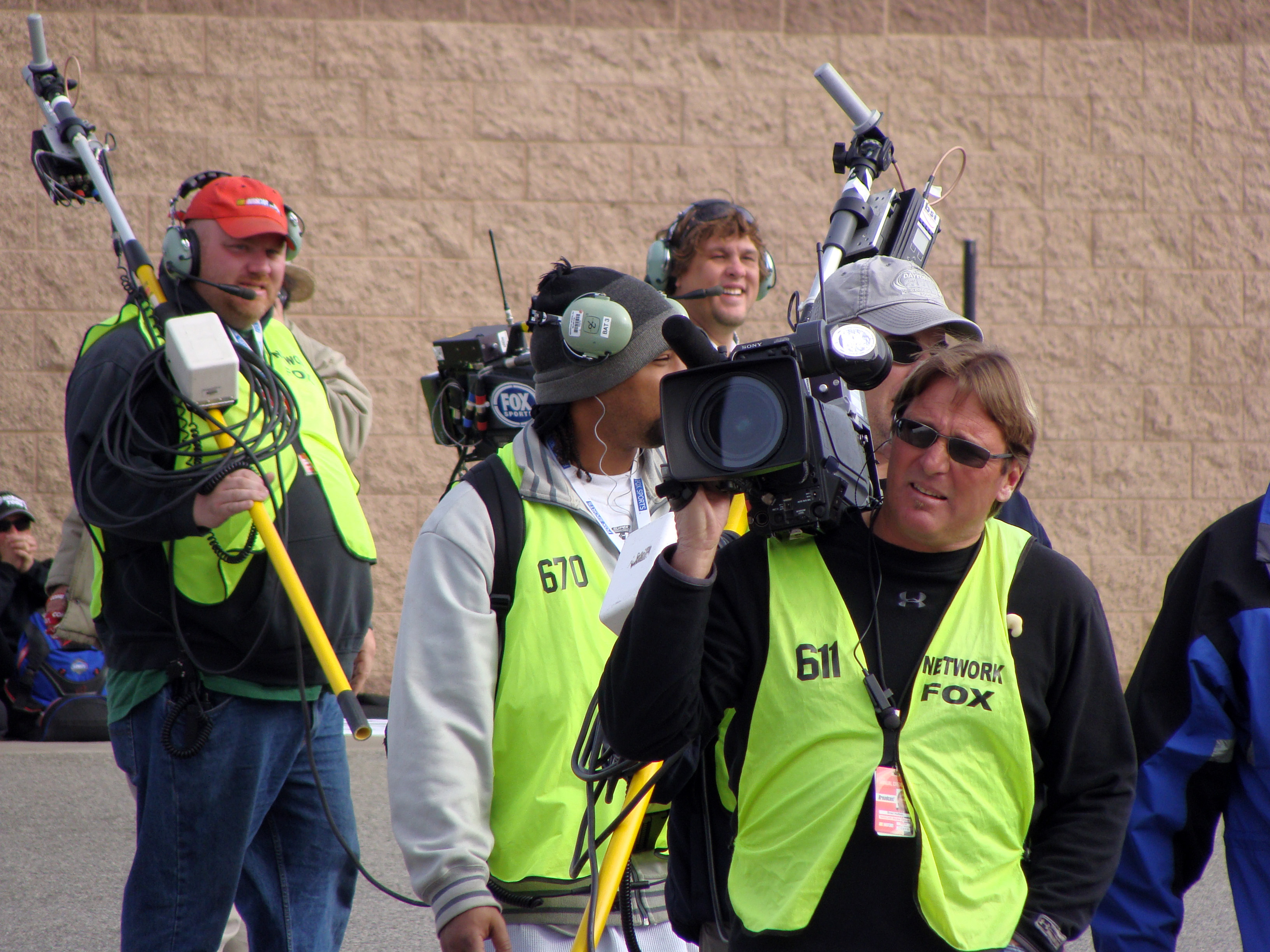 A camera crew for Fox Sports at the Auto Club Speedway